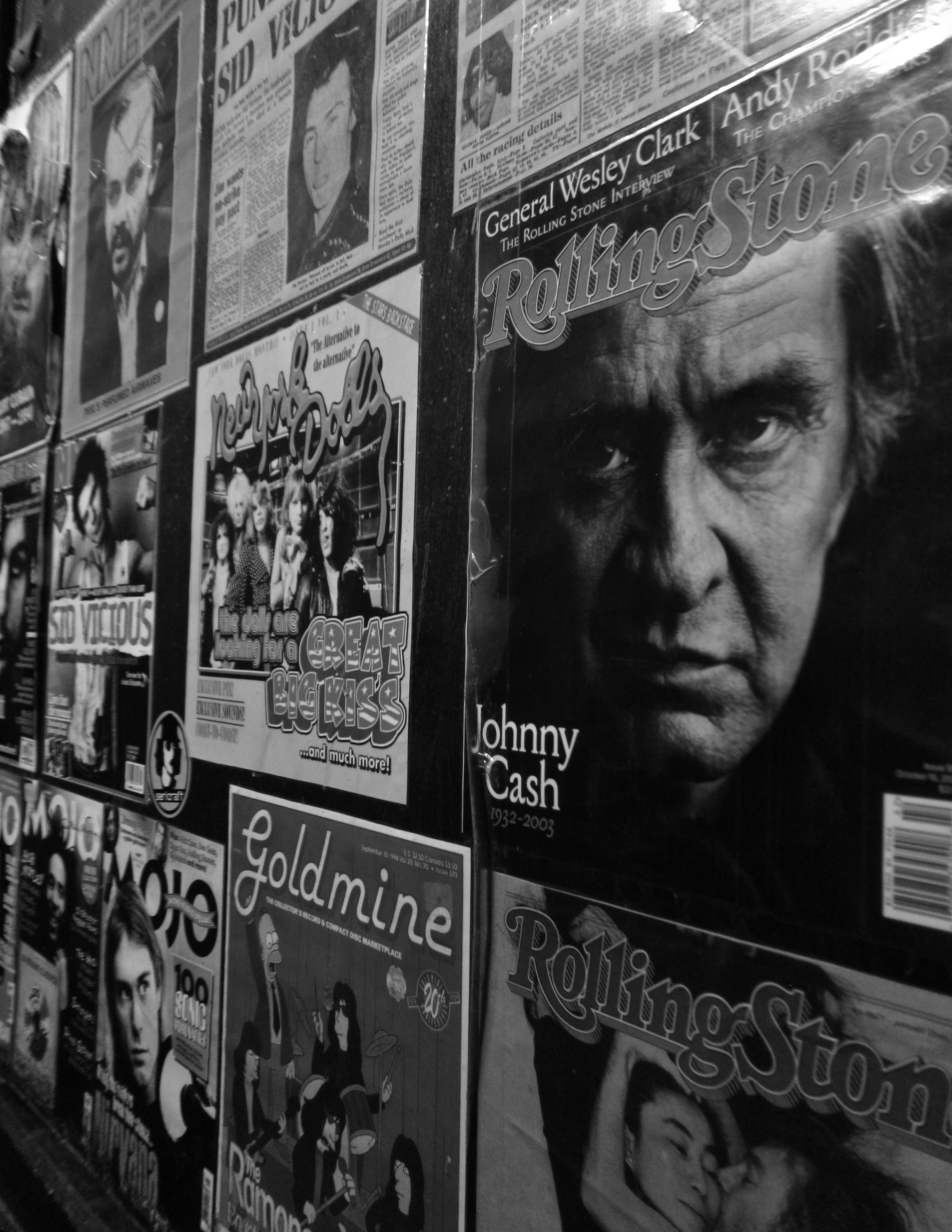 Farewell party at Denmark Street, London